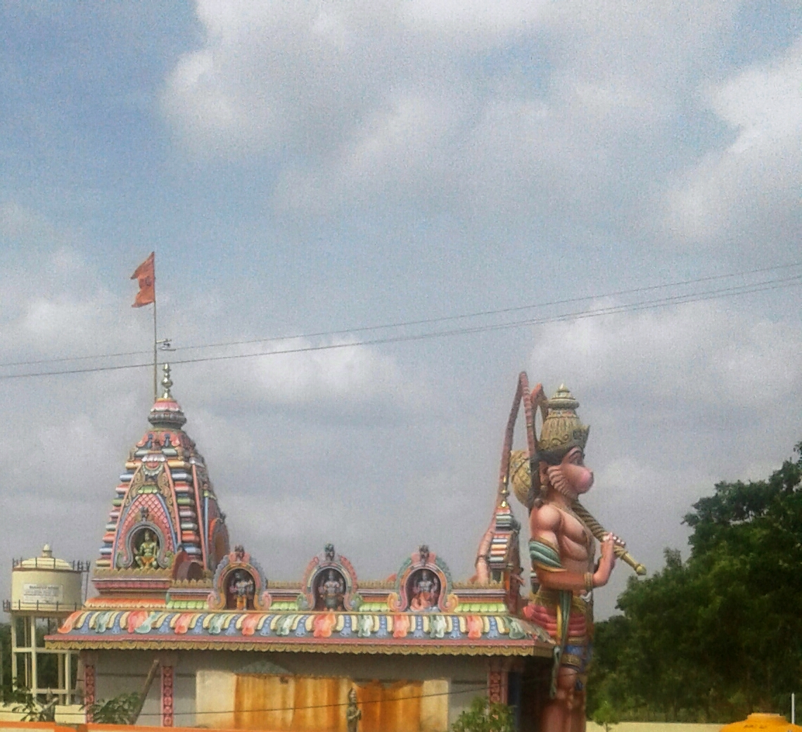 Tumkuru district, Karnataka state, India.